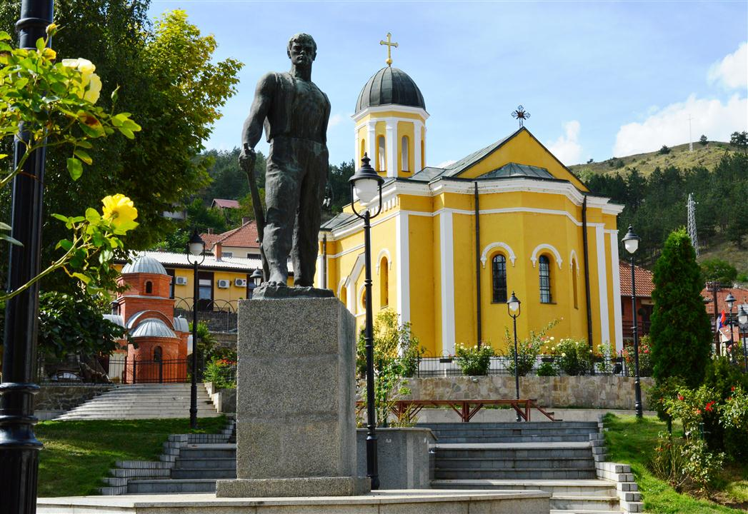 Raska Municipality - Raska city